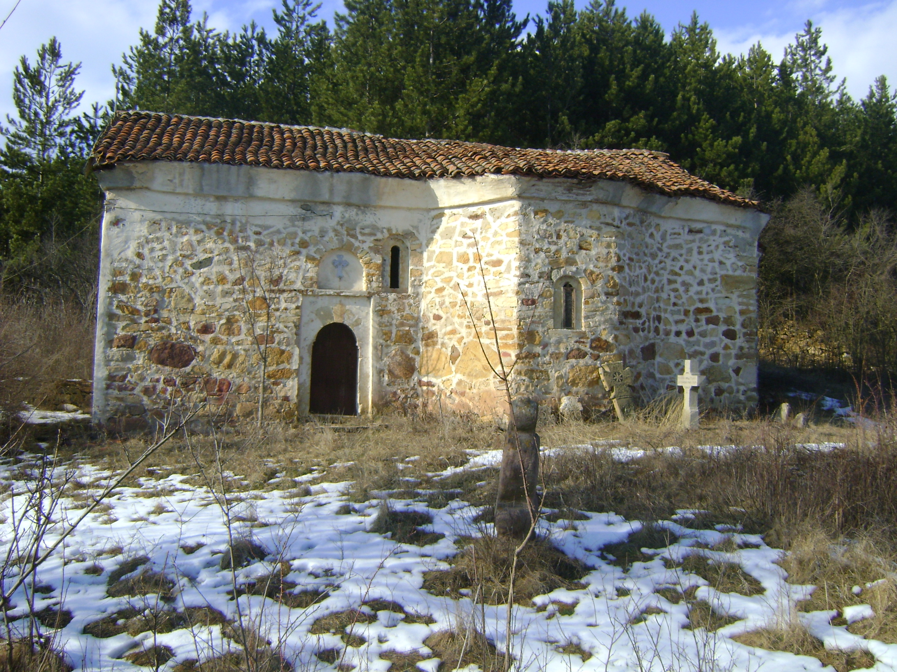 The church in village Sopitsa, Bulgaria